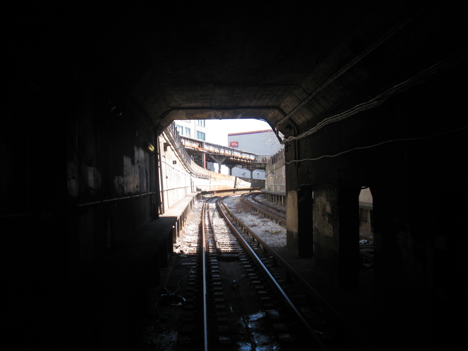 20110327 48 CTA South Side L @ 13th St.